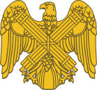 National Guard Bureau branch insignia